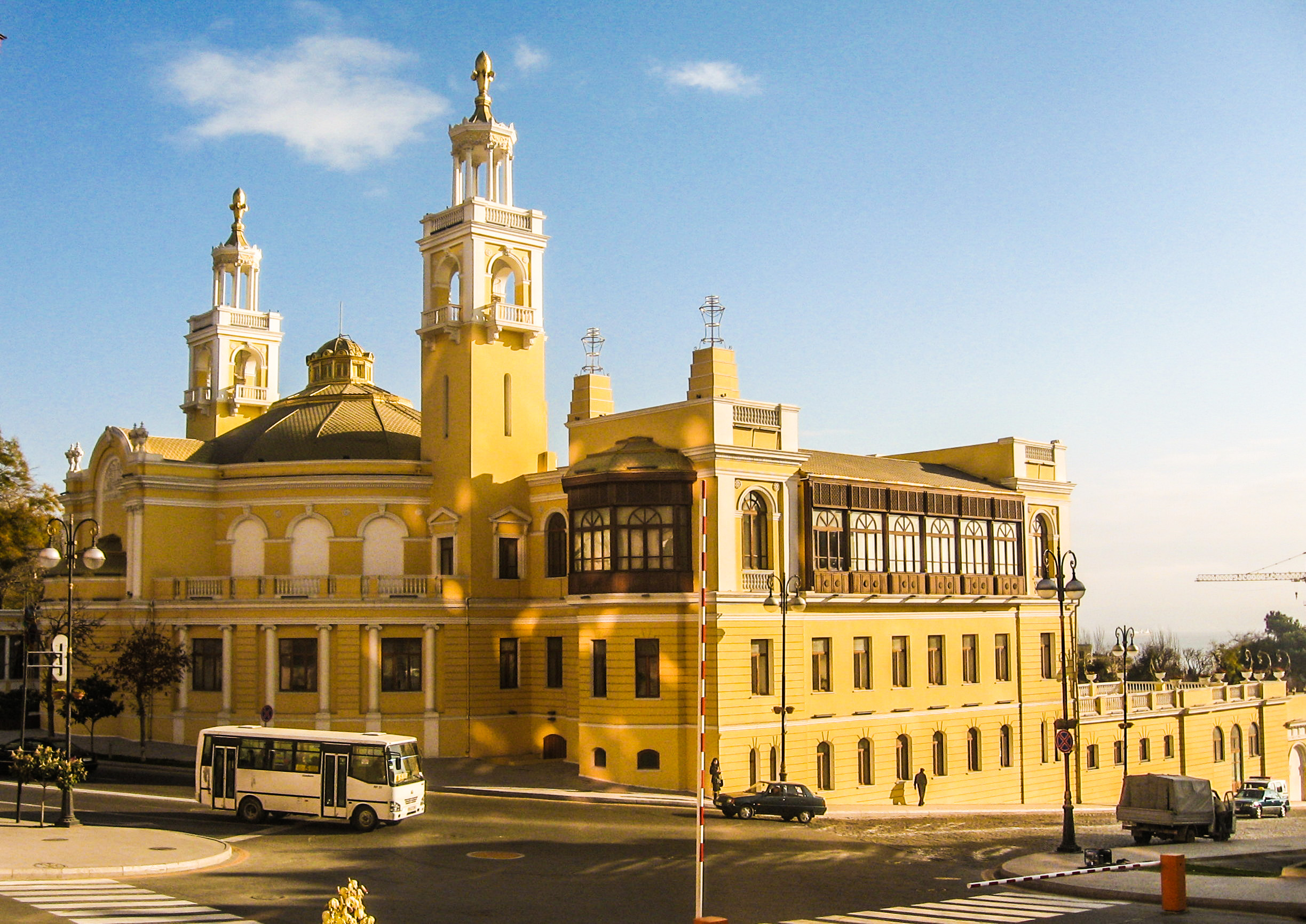 Filarmony building in Baku